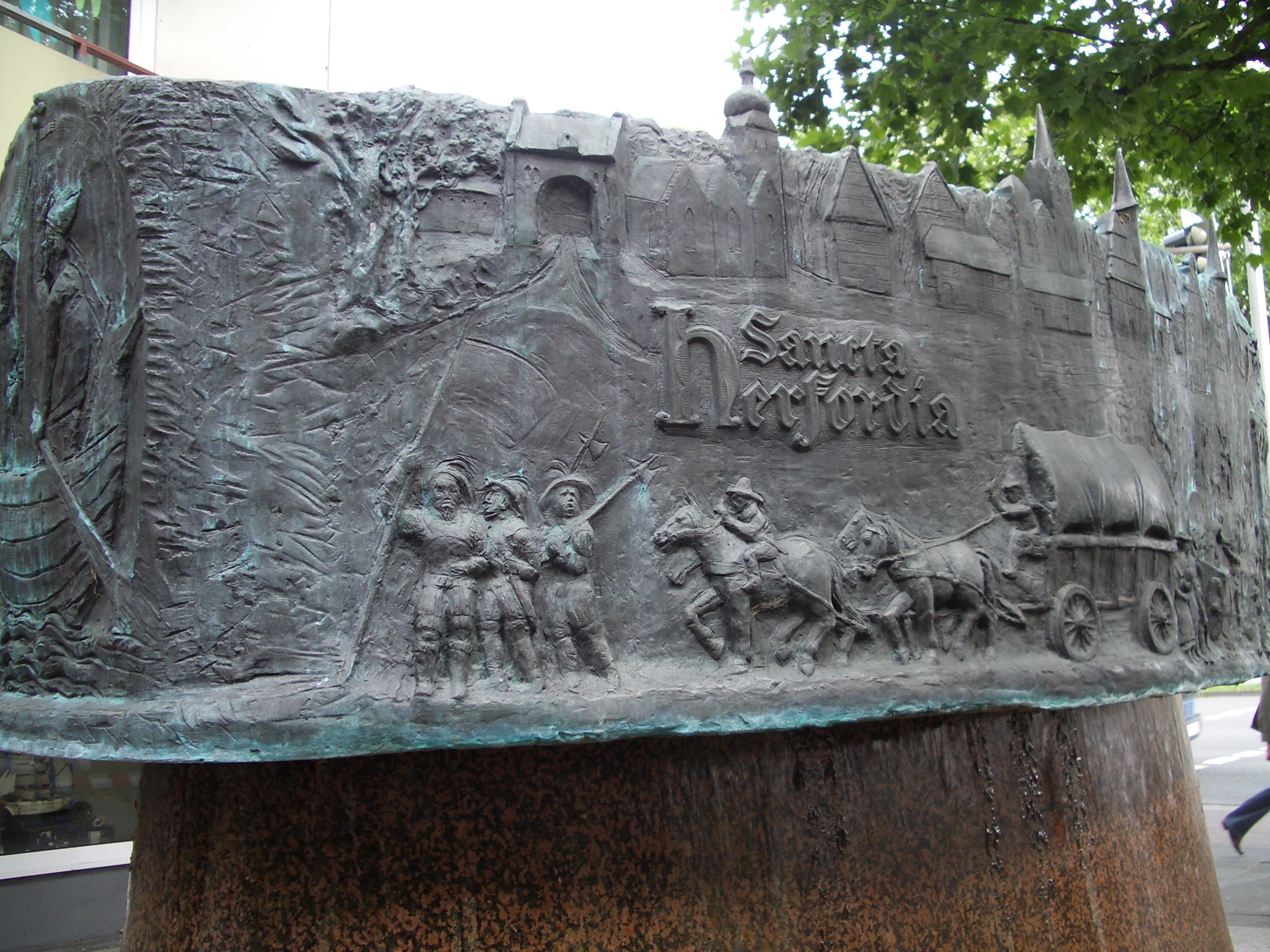 Fountain in town of Herford, District of Herford, North Rhine-Westphalia, Germany.